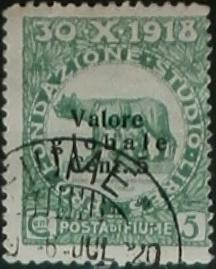 francobollo di Fiume - 5 cent - 1919 - serie pro Fondazione Studio sovrastampato - stamps of Fiume